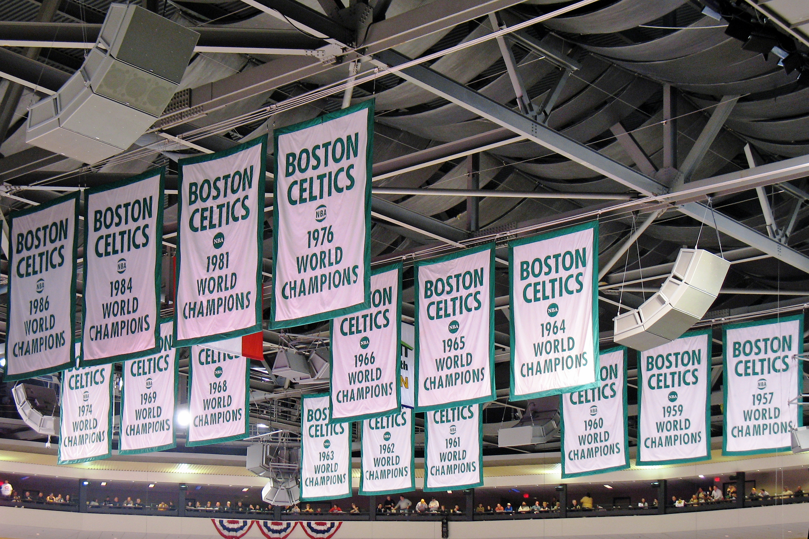 The Boston Celtics are back and looking to add to the 16 NBA Championship banners hanging at the TD Garden.